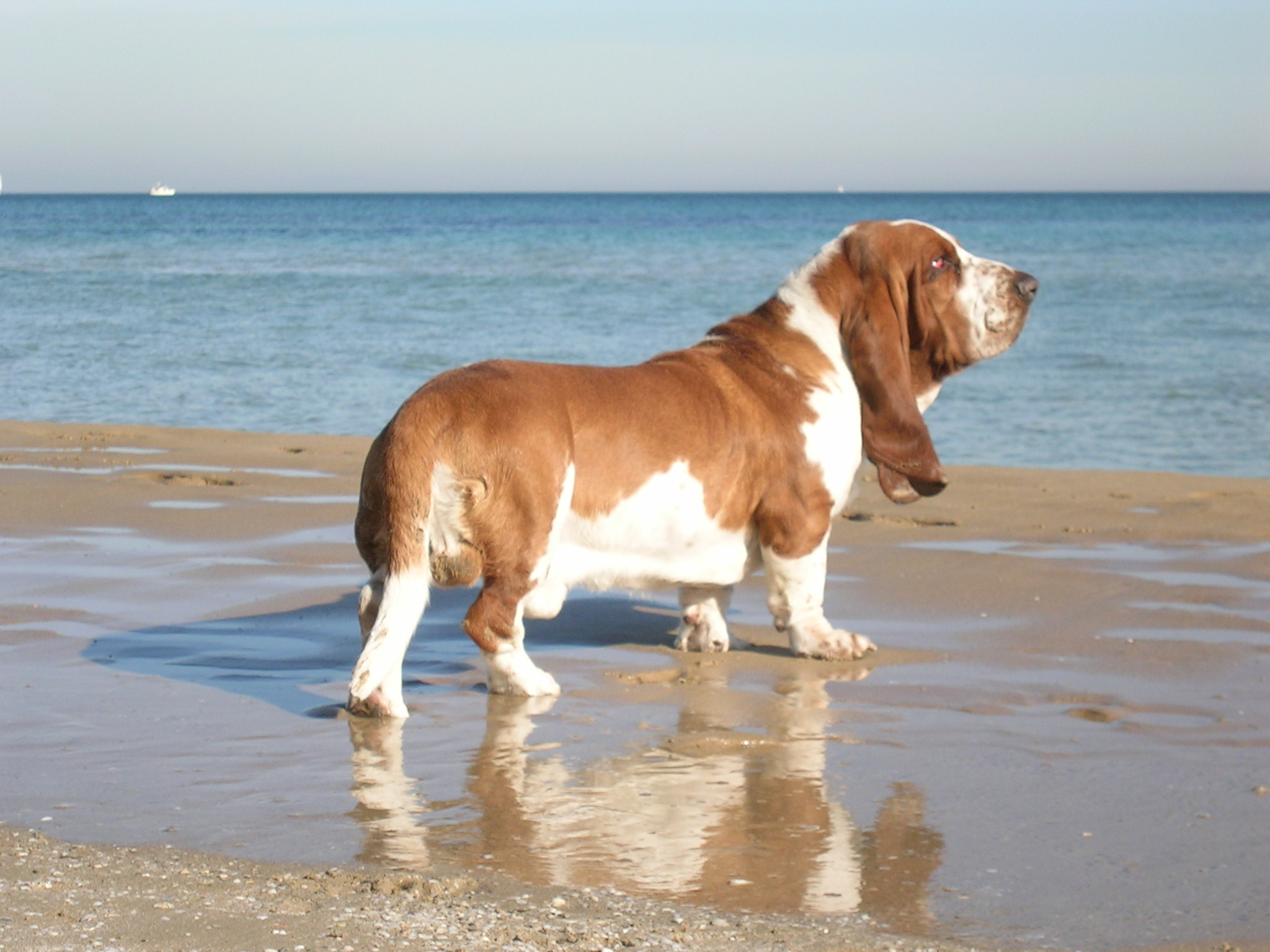 Basset Hound bicolor